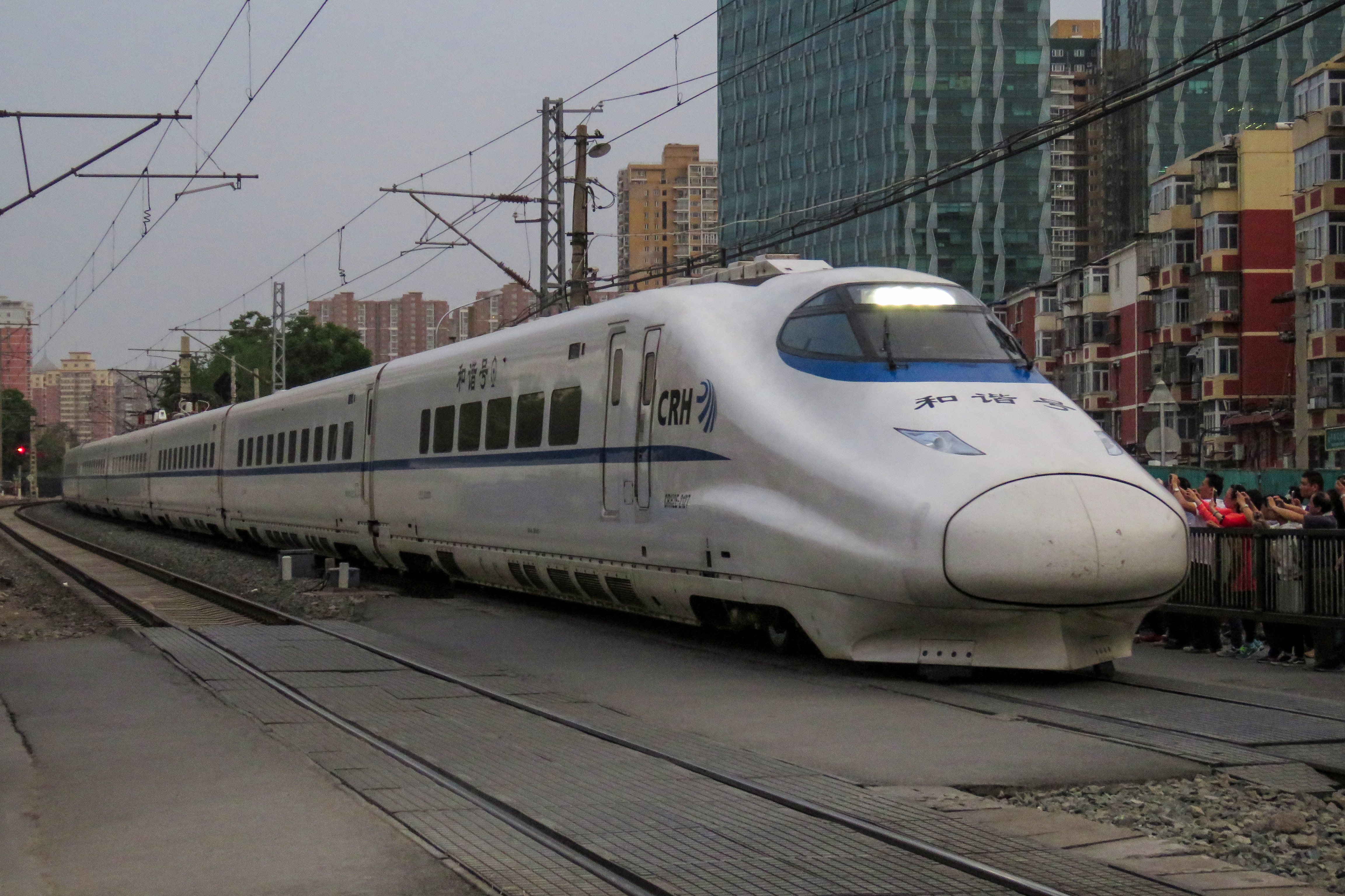 【伝説から神話へ -NONGFUSUO…AT LAST-】0D940 from depot. Goodbye Nongfusuo, and thank you!